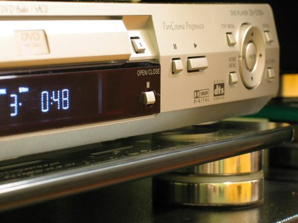 CD, DVD and SACD player.